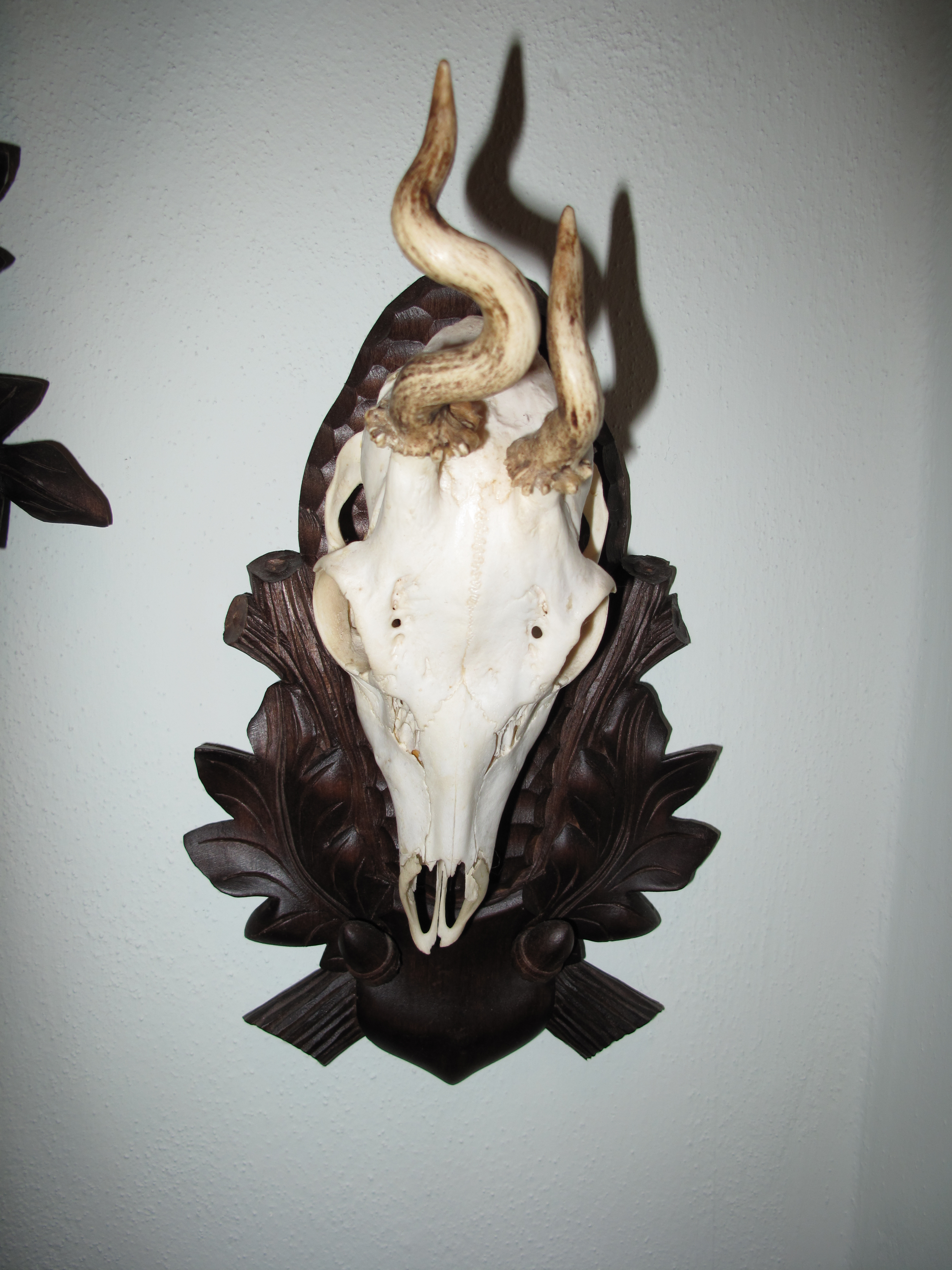 Roe Deer trophy from Prácheňský kraj, Czech Republic.